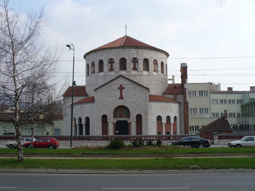 Church of the transfiguration of Jesus Christ in Sarajevo